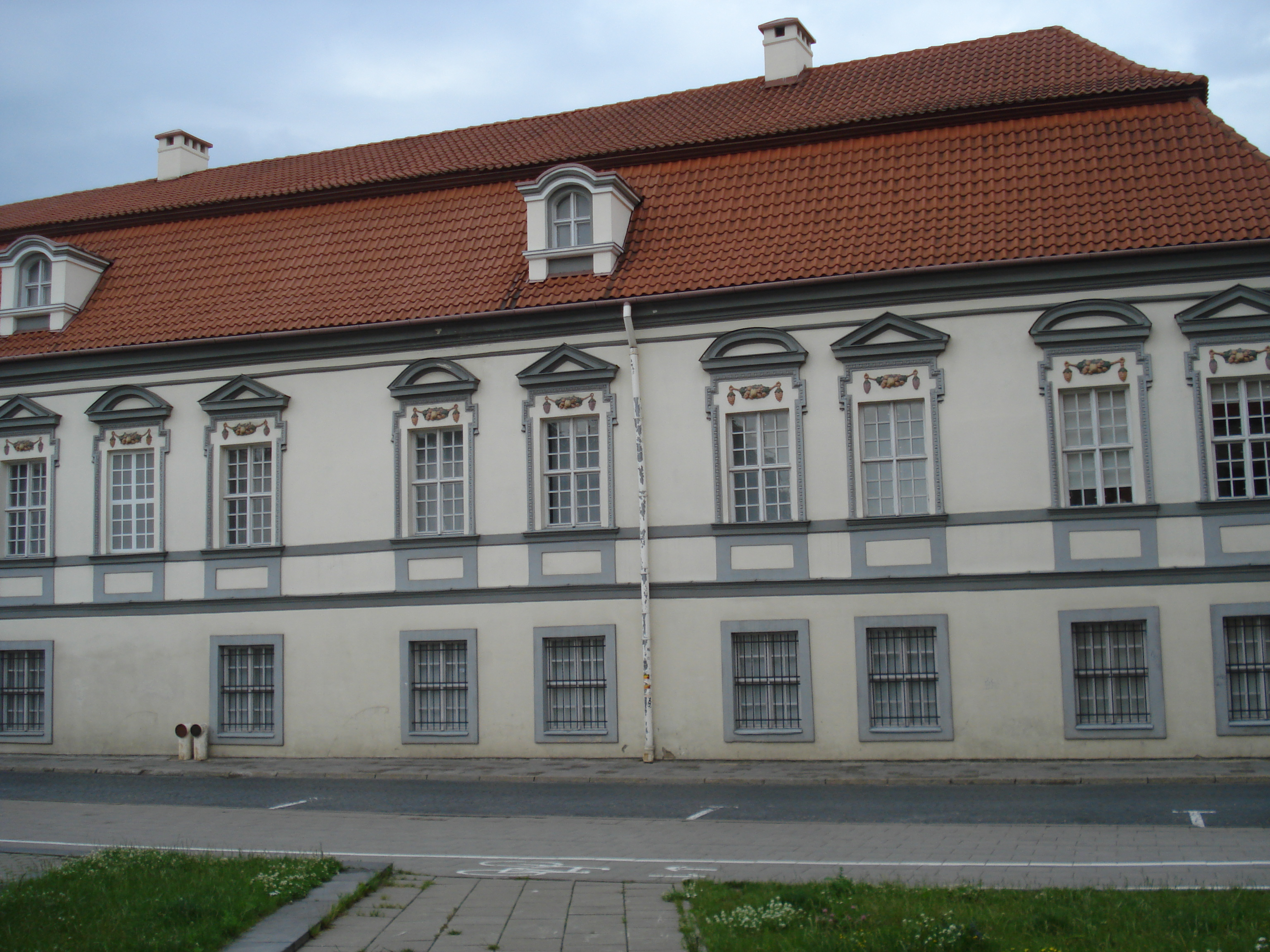 The Lithuanian Theatre, Music and Film Museum. Former Radziwill and later Oskierko Palace in Vilnius